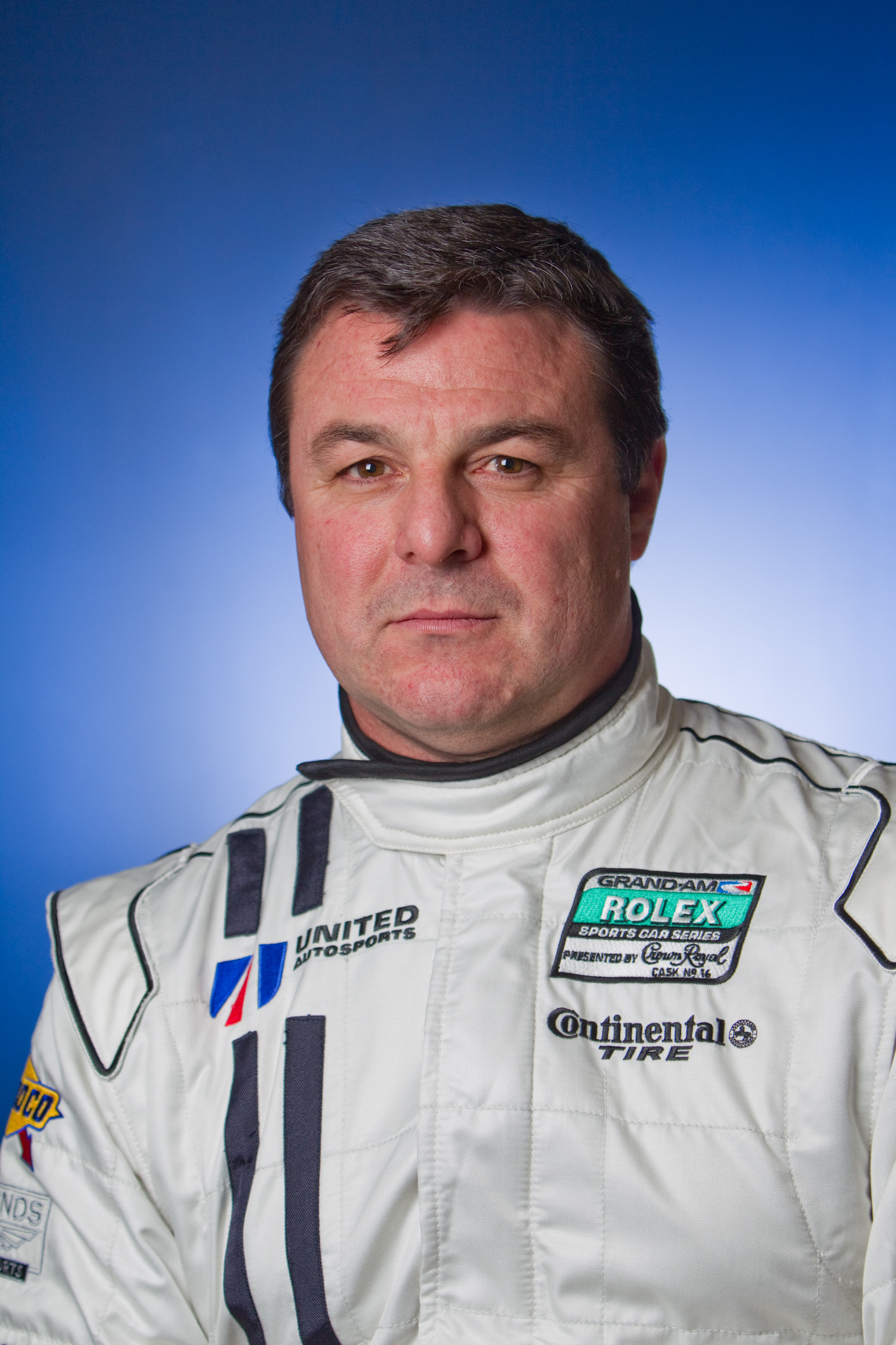 Mark Blundell in a portrait before the 2011 Rolex Series Test at Daytona International Speedway